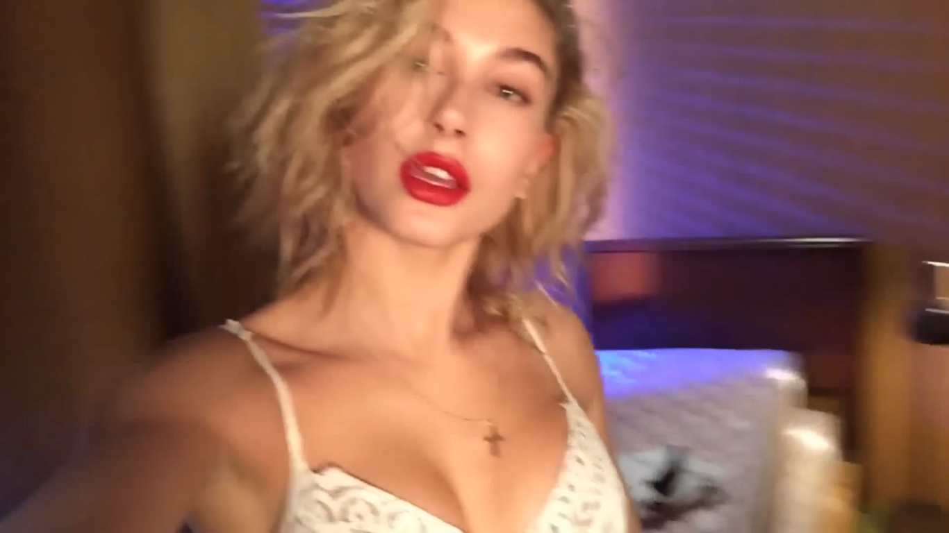 Hailey Baldwin for day 9 of LOVE Magazine Advent 2014 by Daniel Jackson.